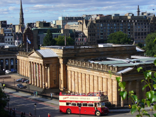 National Gallery of Scotland. Another classical building designed by William Playfair, it contains paintings and sculptures.